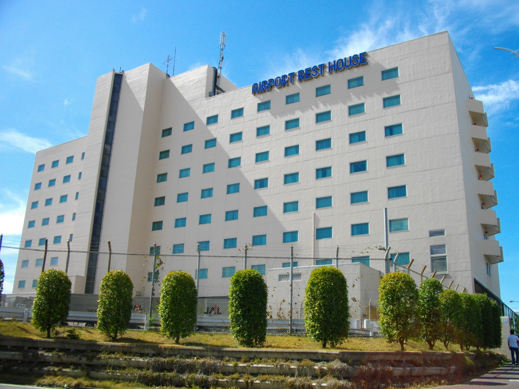 Narita Airport Resthouse